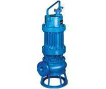 They are widely used in effluents, raw sewage, storm water, waste water.